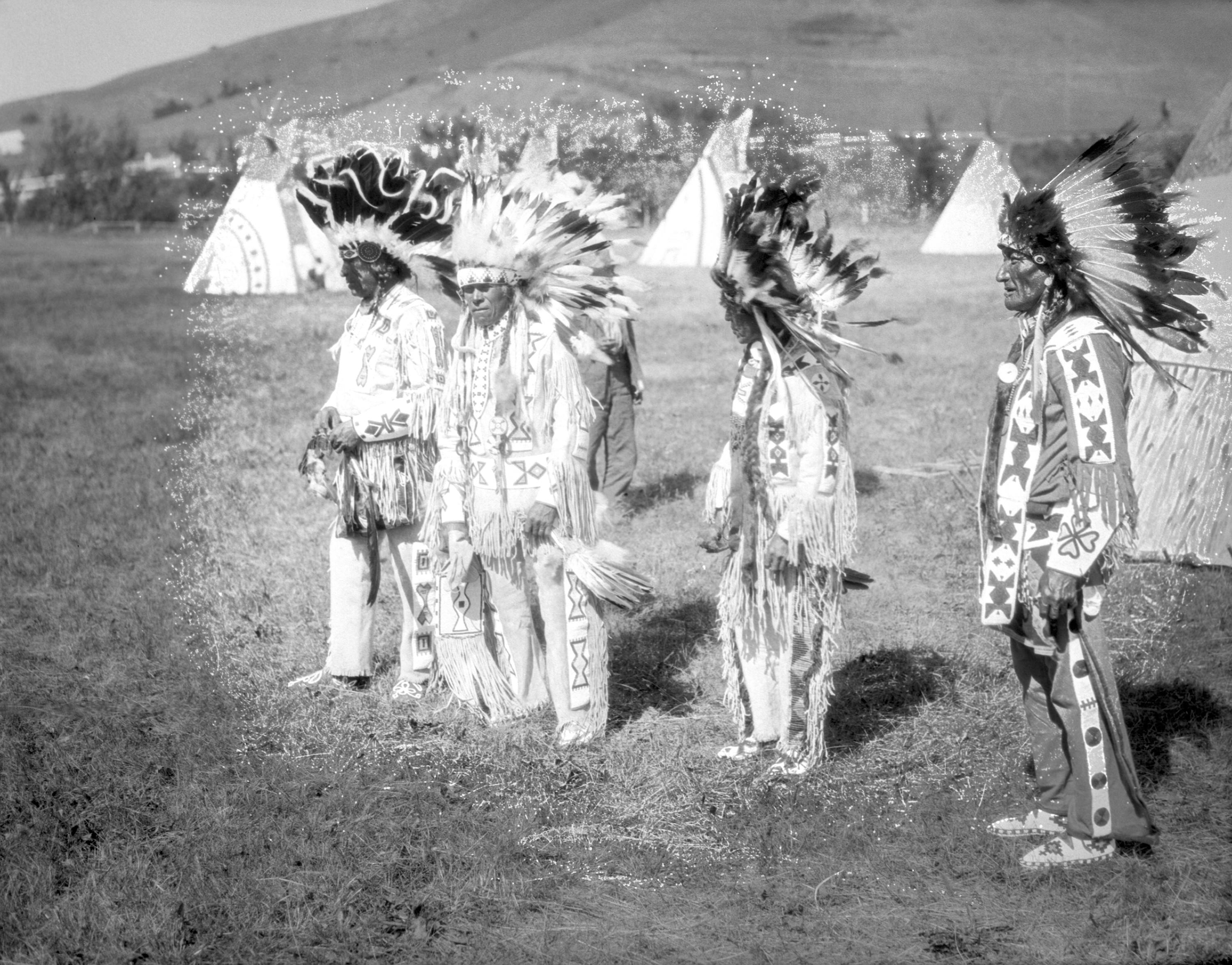 From the Paul Coze fonds, PR2006.0508/3.